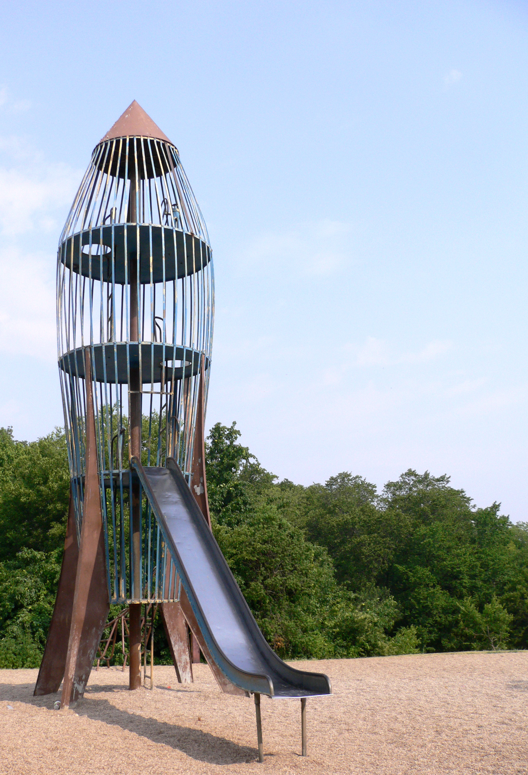 The rocketship slide at Heights Park in Richardson, Texas. One of the few remaining all-metal rocketship slides in the world. Later in 2006, the rocket slide was repainted with bright red and blue colors. The 40 year old rocketship was taken down carefully by the City of Richardson on July 14, 2008. Many of the playground features of Heights Park were cited for removal due to safety concerns and non-compliance with the ADA. The structure was placed in storage. City officials hope to incorporate the structure into a public artwork project in the future.